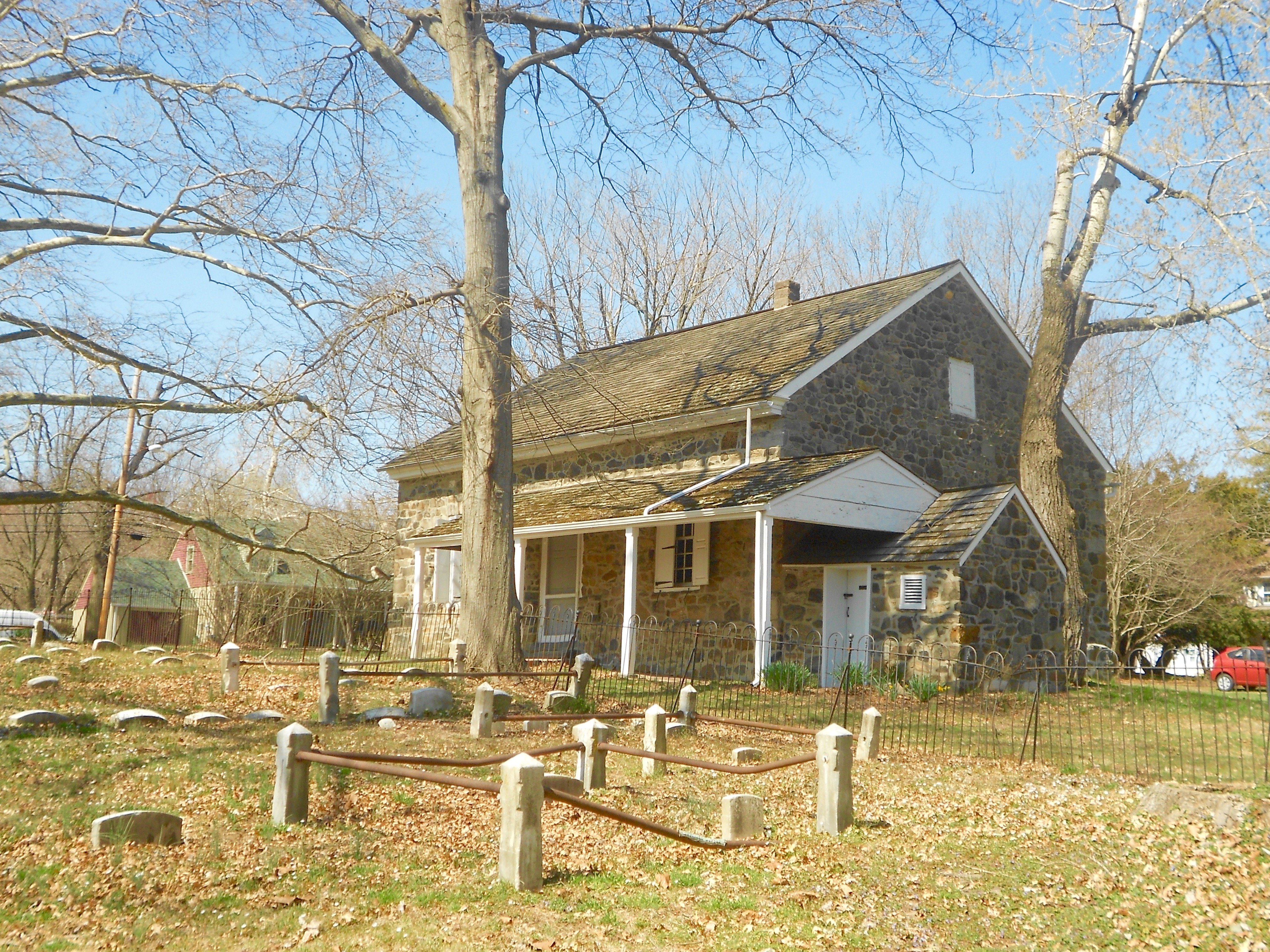 Chichester Meetinghouse in Boothwyn, Pennsylvania. Listed on the NRHP